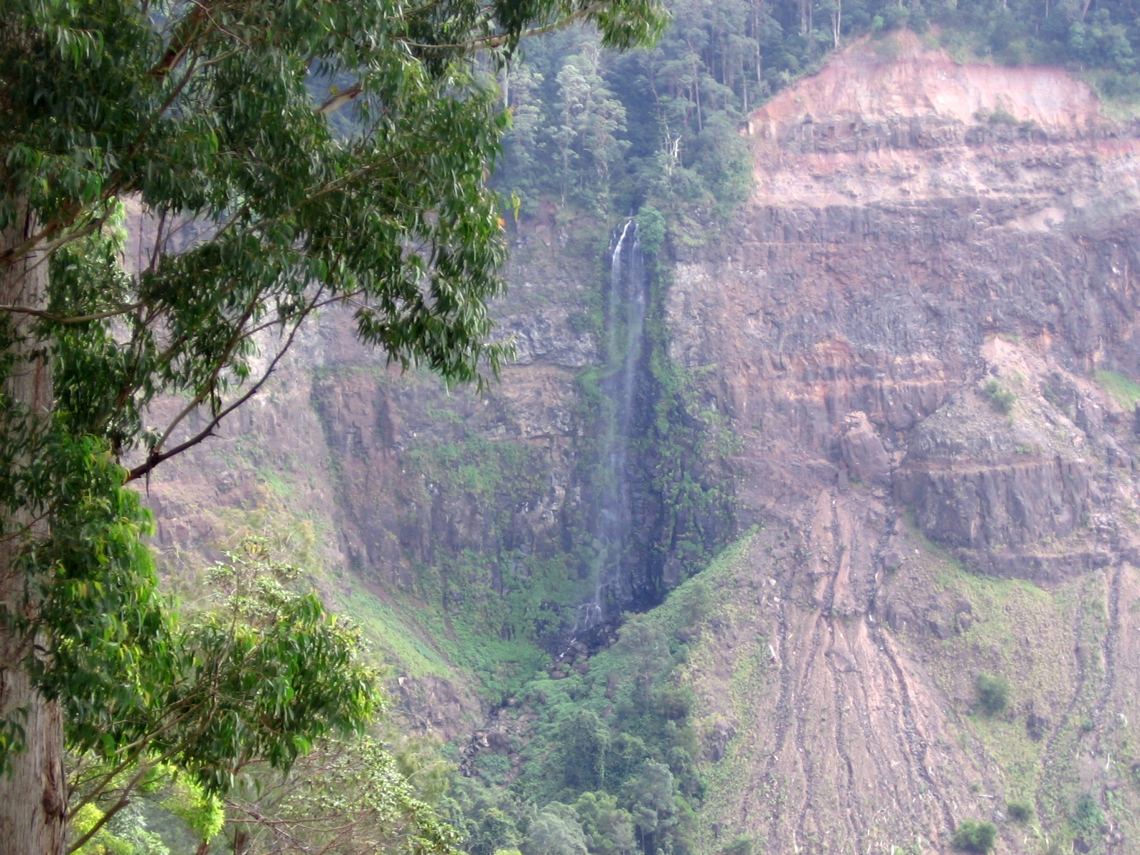 Teviot Falls as viewed from Boonah - Killarney road, in South East Queensland, Australia